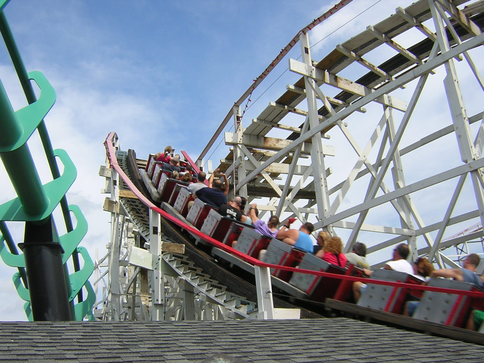 A scene from Kennywood, an amusement park located in West Mifflin, Pennsylvania on the Monongahela River. This is a view of the historic Thunderbolt ride. This Roller coaster ride dates to 1924. It started out as the Pippin but was reprofiled and expanded in 1967. It still uses 1958 vintage Century Flyer trains. In this view a train is ascending, after taking the initial drop after the first lift hill. This gives a good view of the Century Flyer cars.